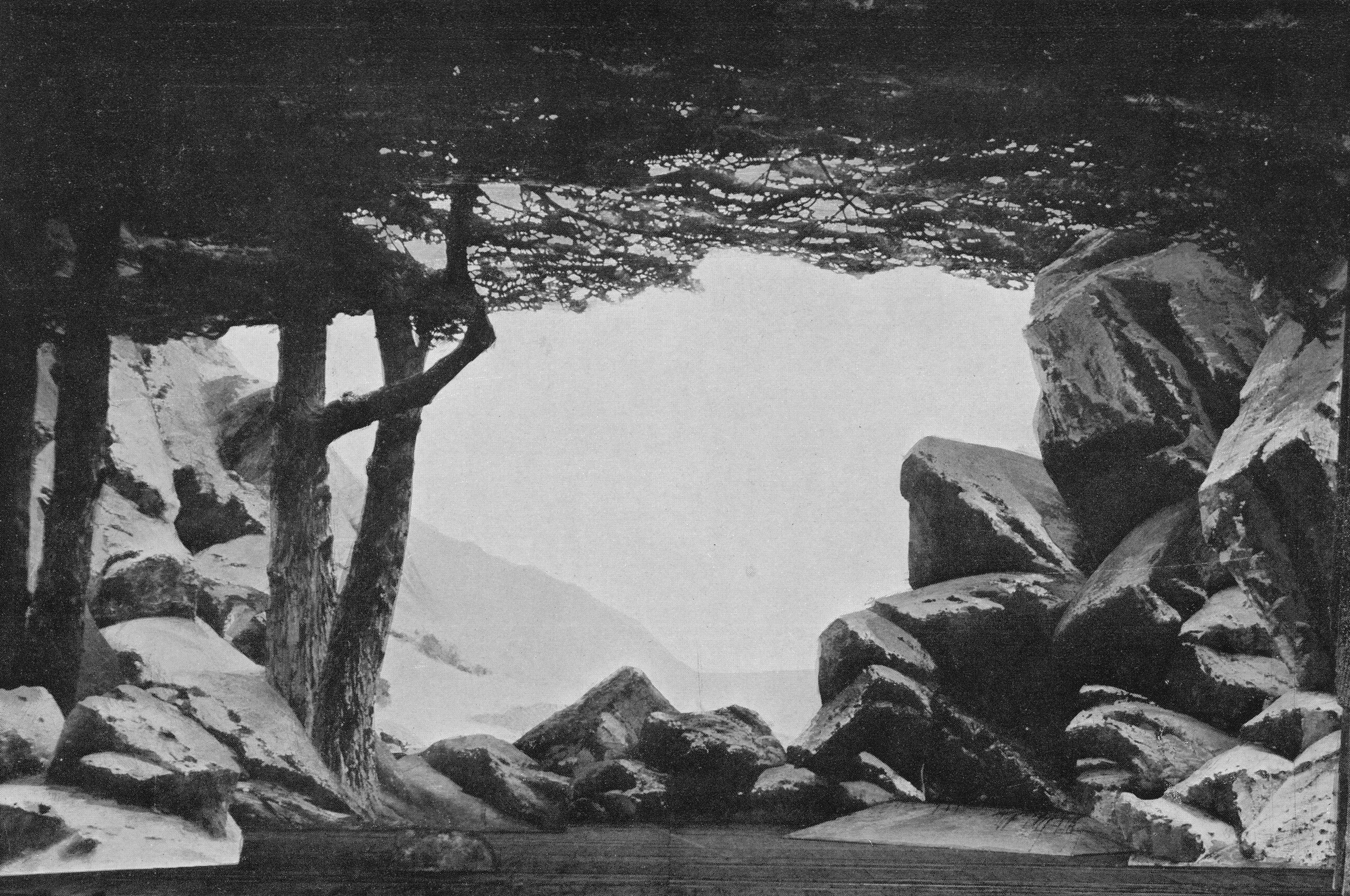 Gluck - Armide - Décor du 3e Acte - Paris, Théâtre de l'Opéra Garnier, 12-04-1905